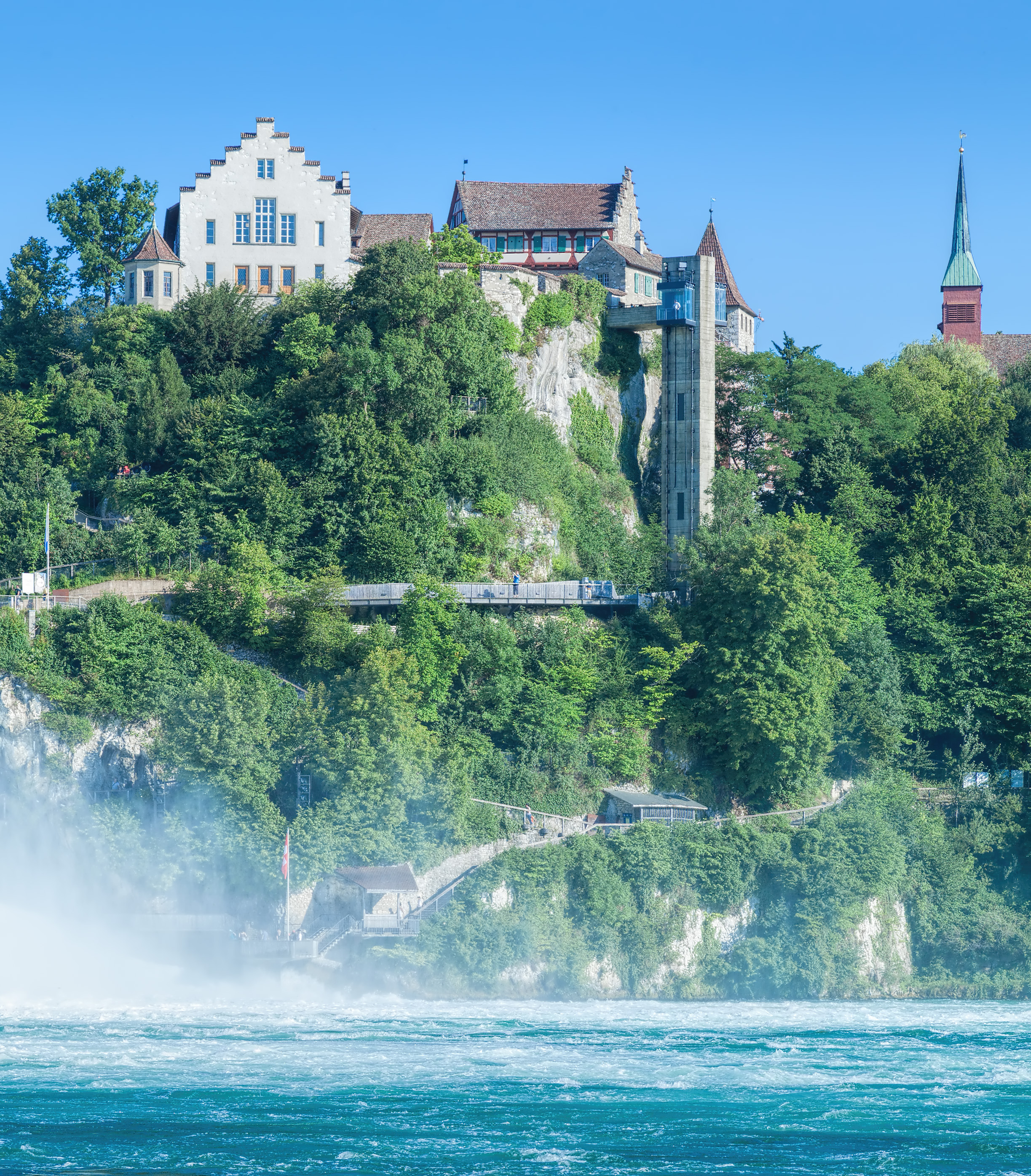 Castle Laufen in Switzerland, near the Rhine Falls. Picture taken on 16 July, 2014.